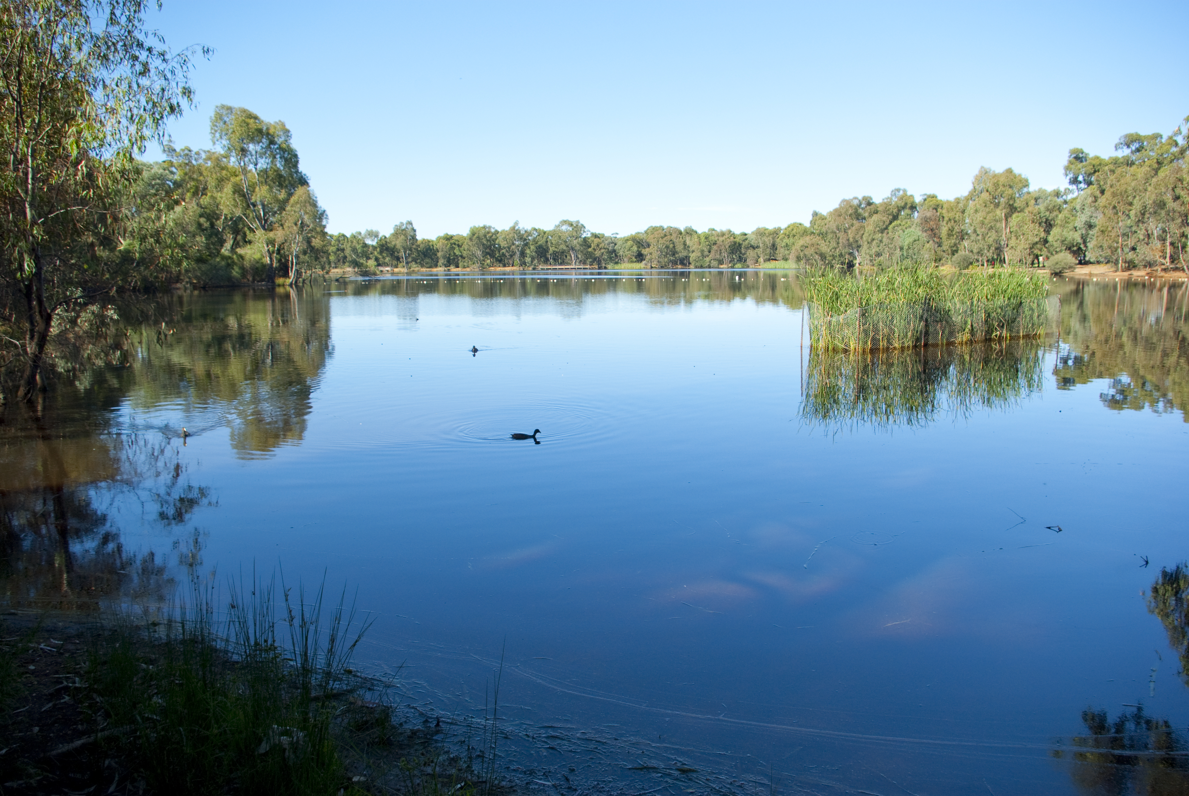 Image of Kennington Reservoir, taken from the Southern side looking NNE